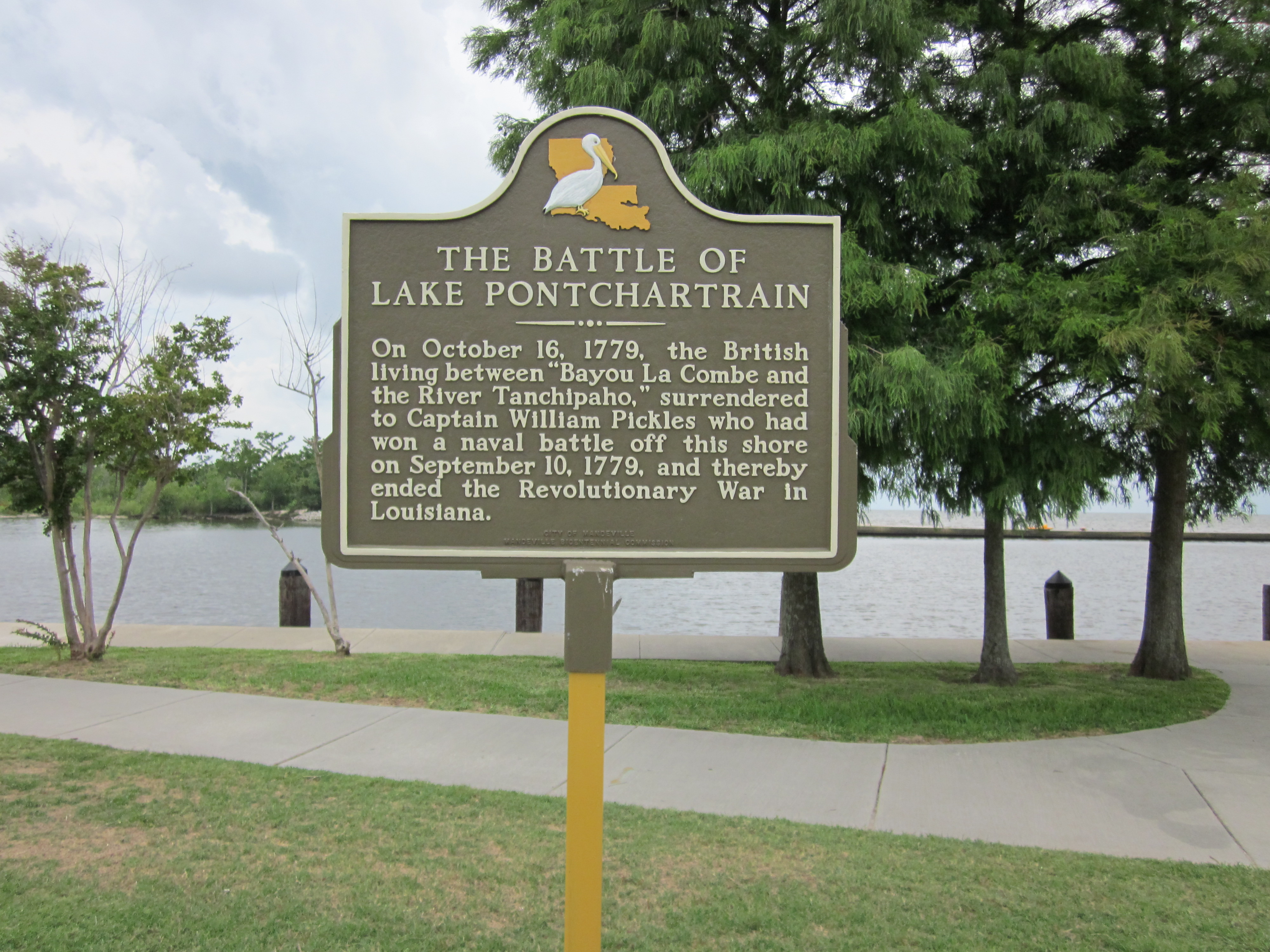 Mandeville, Louisiana. Plaque commemorating Battle of Lake Pontchartrain.